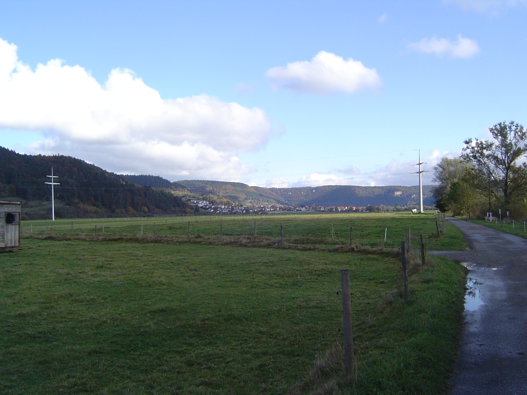 View from Nendingen towards Mühlheim an der Donau.